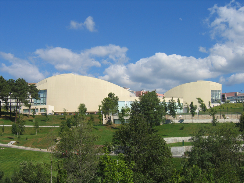 Vila Real Theatre, Vila Real, Portugal